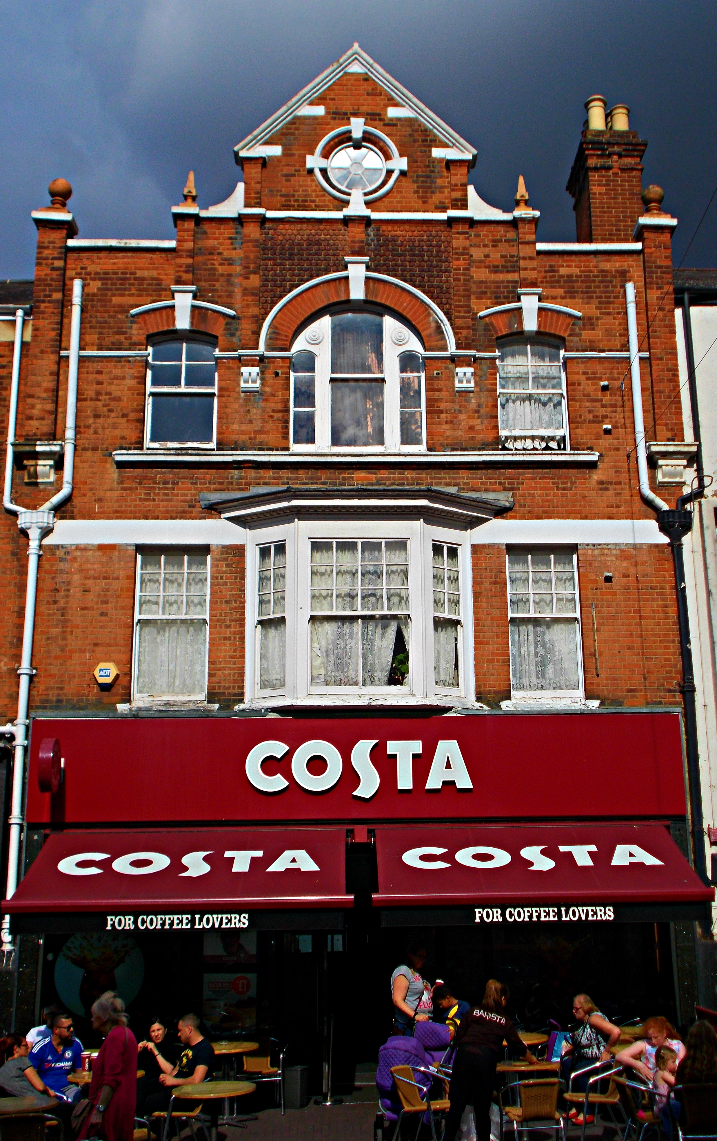 Decorative Edwardian building on Sutton High Street